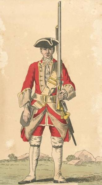 Soldier of the 27th regiment (1742)